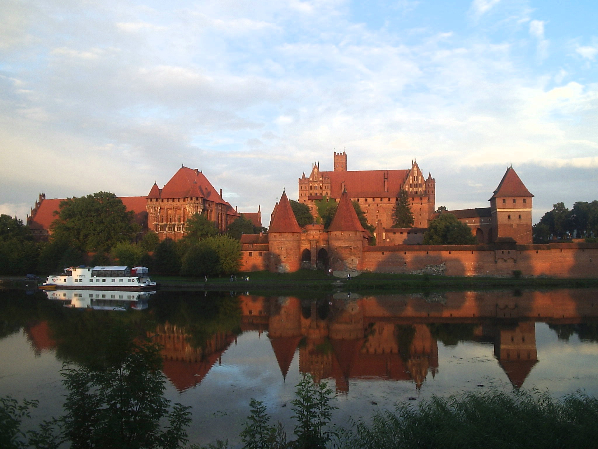 Teutonic castel - Malbork, Poland